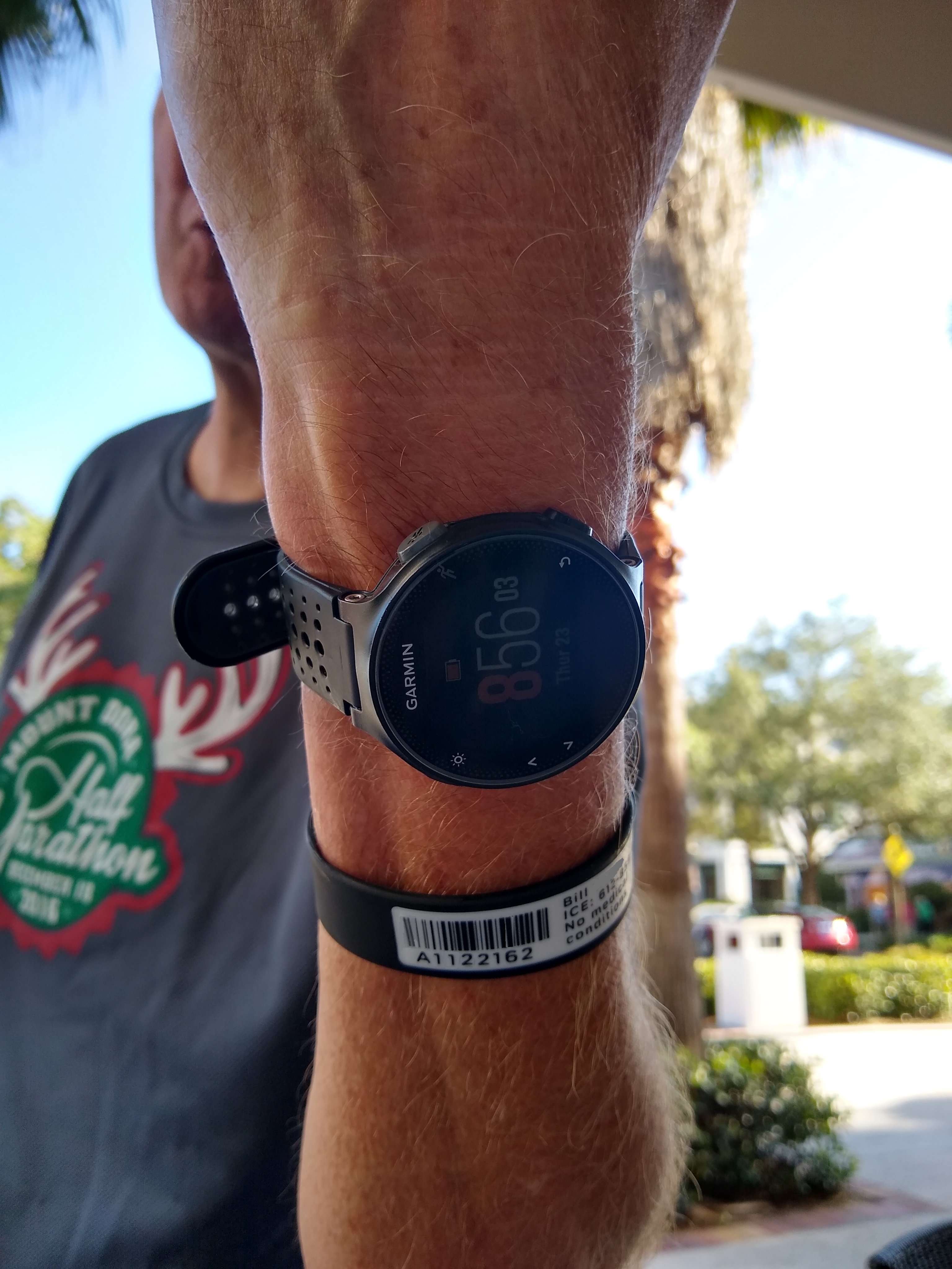 A parkrun ID can be personalized with name, athlete ID barcode number, ICE (In Case of Emergency) telephone number and any specific medical details.